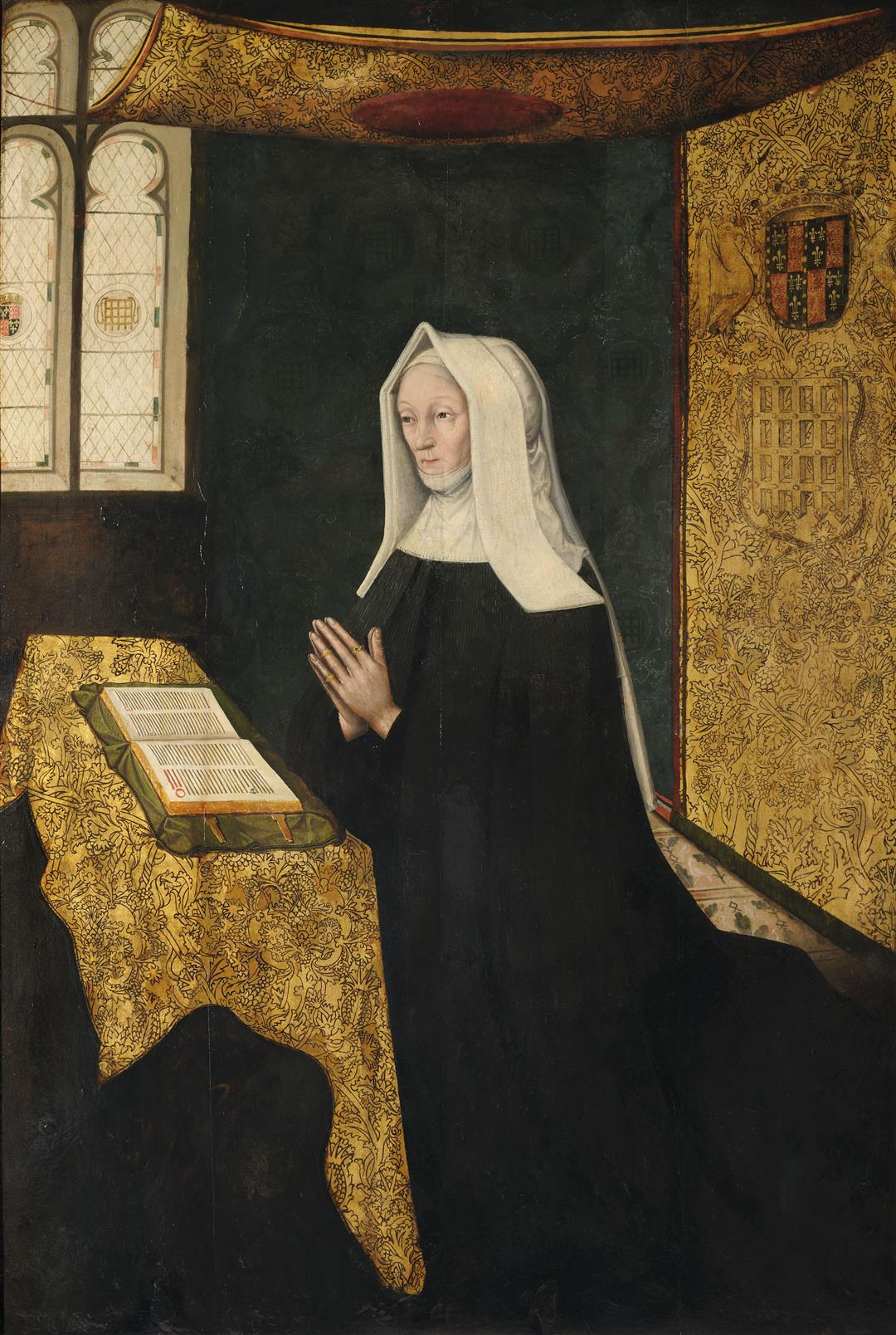 Portrait of Lady Margaret Beaufort from the Master's Lodge, St John's College,. University of Cambridge